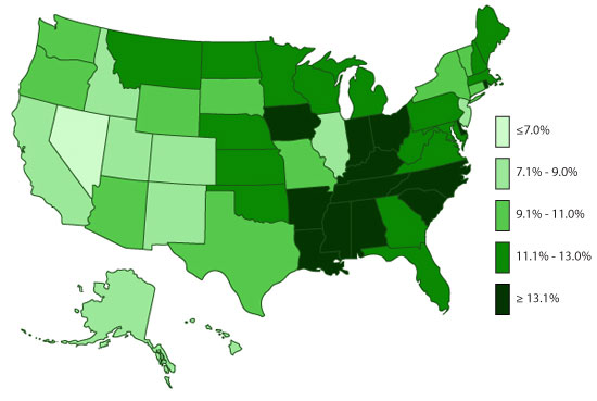 Percent of youth aged 4-17 ever diagnosed with ADHD as of 2011